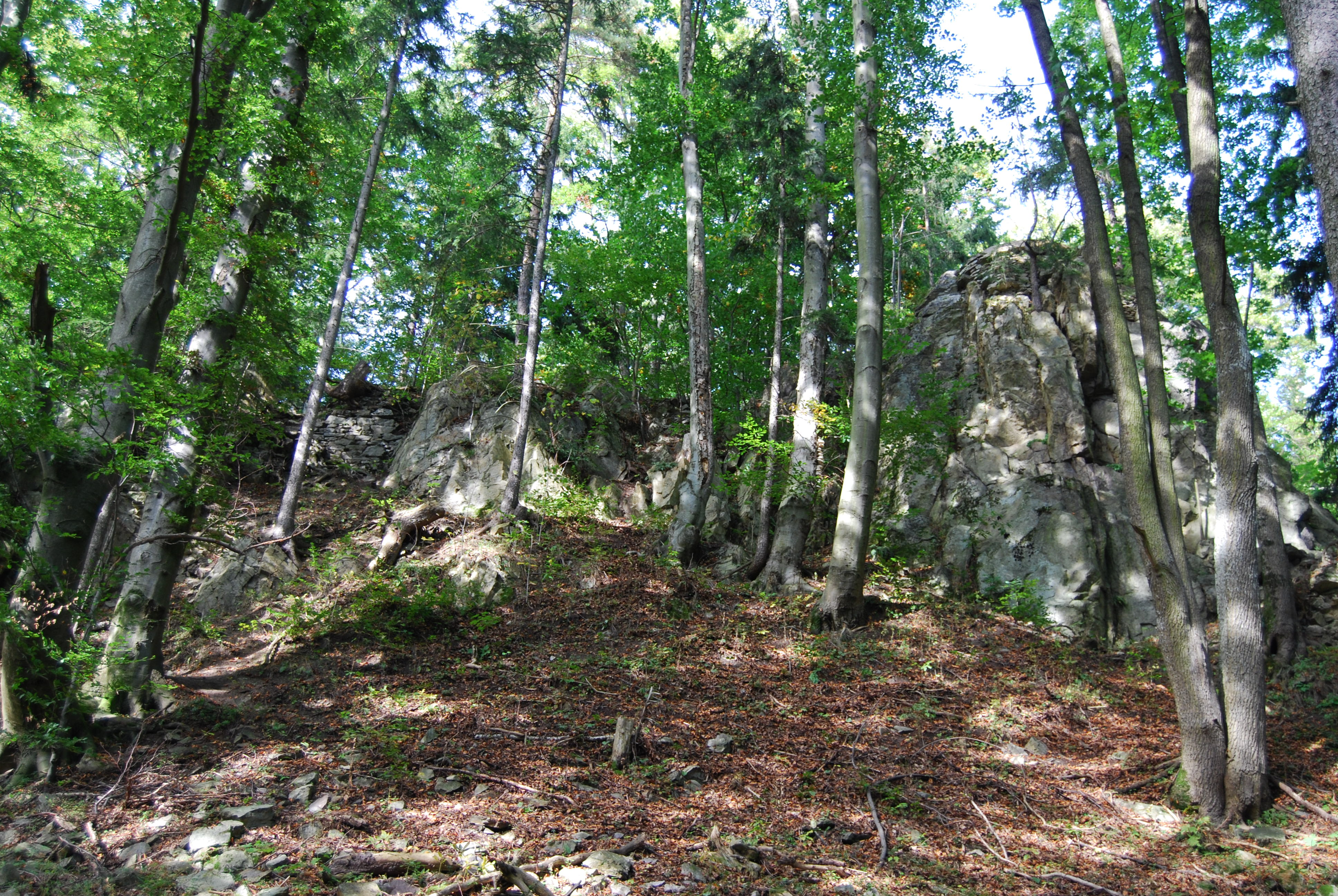 Ruins of Kuglvajt castle in Kuklev village town in Prachatice District, Czech Republic.